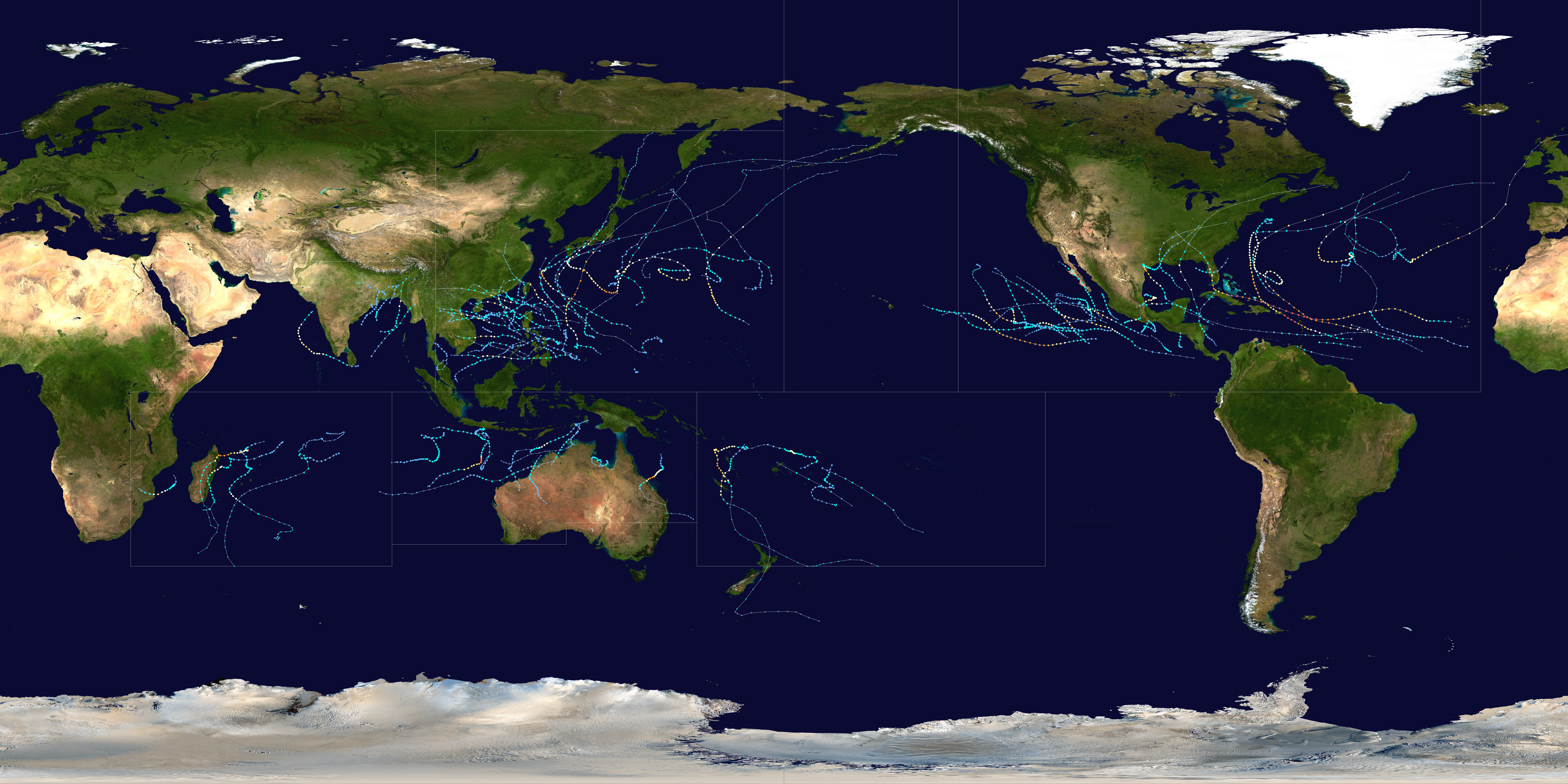 Tropical cyclones worldwide in 2017